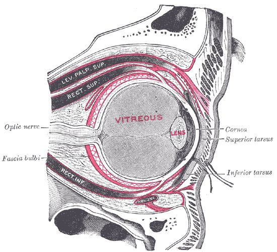 Fasciae of the eyeball (red)